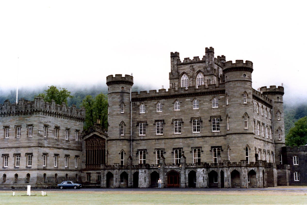 Taymouth Castle, Kenmore, Scotland, from the south